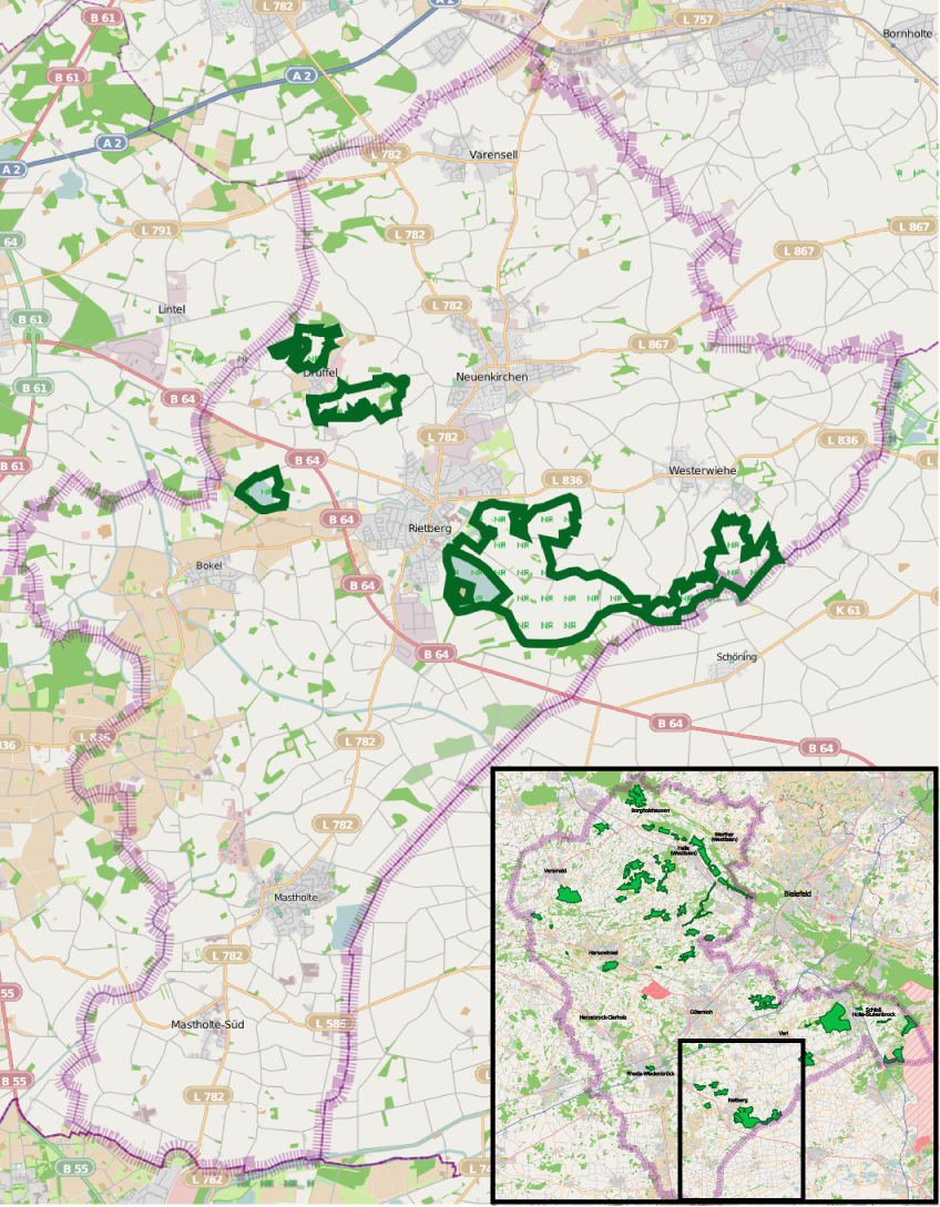 Nature reserves in Rietberg - overview map Number and borders of nature reserves are subject to frequent change. In order to facilitate reproduction of this map from openstreetmap, the following data is stored here: export boundaries: north: 51.882; west: 8.33 south: 51.713; east: 8.543 mapnik svg, scale 1:100.000 nature reserve boundary stroke weight 3.5; nature reserve stroke color: R 5, G 102, B 36; district border stroke weight: 20